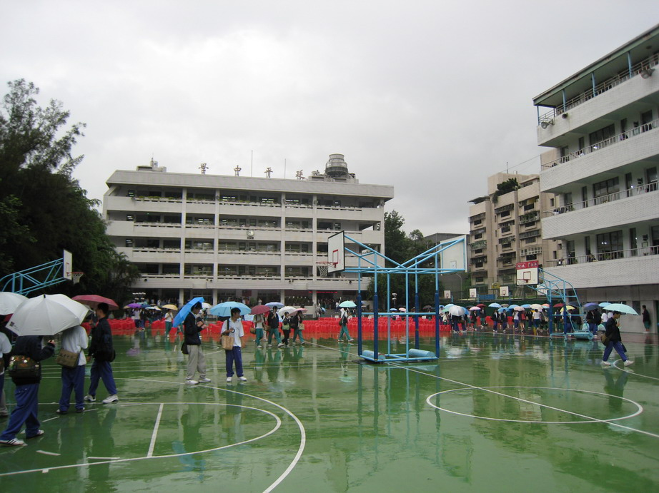 Main Building of Taipei Private Yanping High School.中文（台灣）: 臺北市私立延平高級中學主樓。